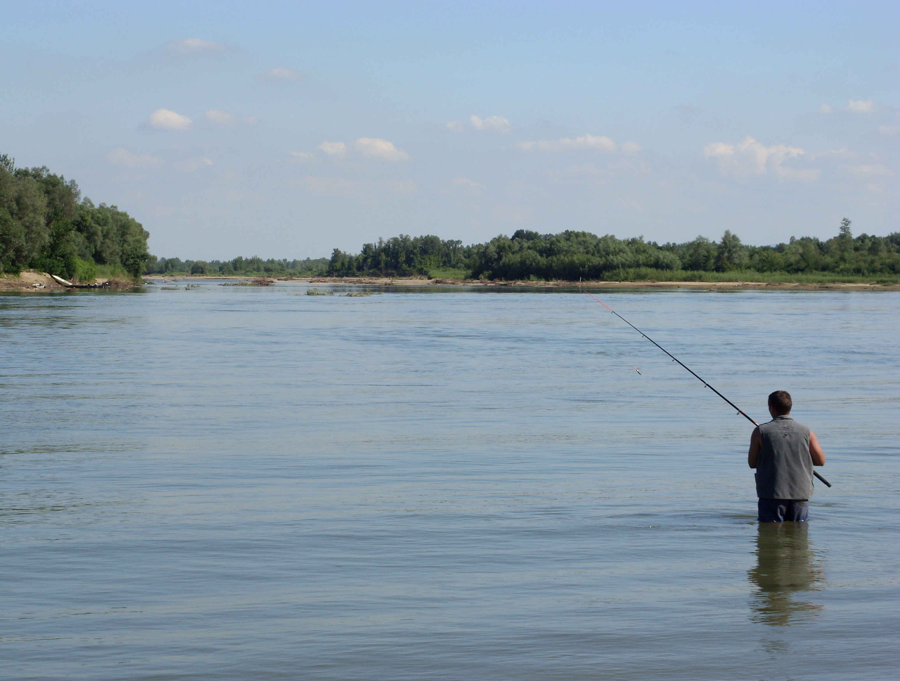 Mouth of Drina River into Sava River (background).